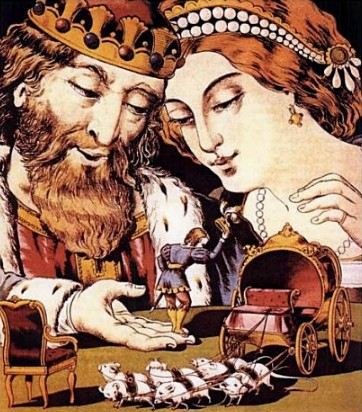 Illustration to a fairy tale "Thumbling" (The English version)